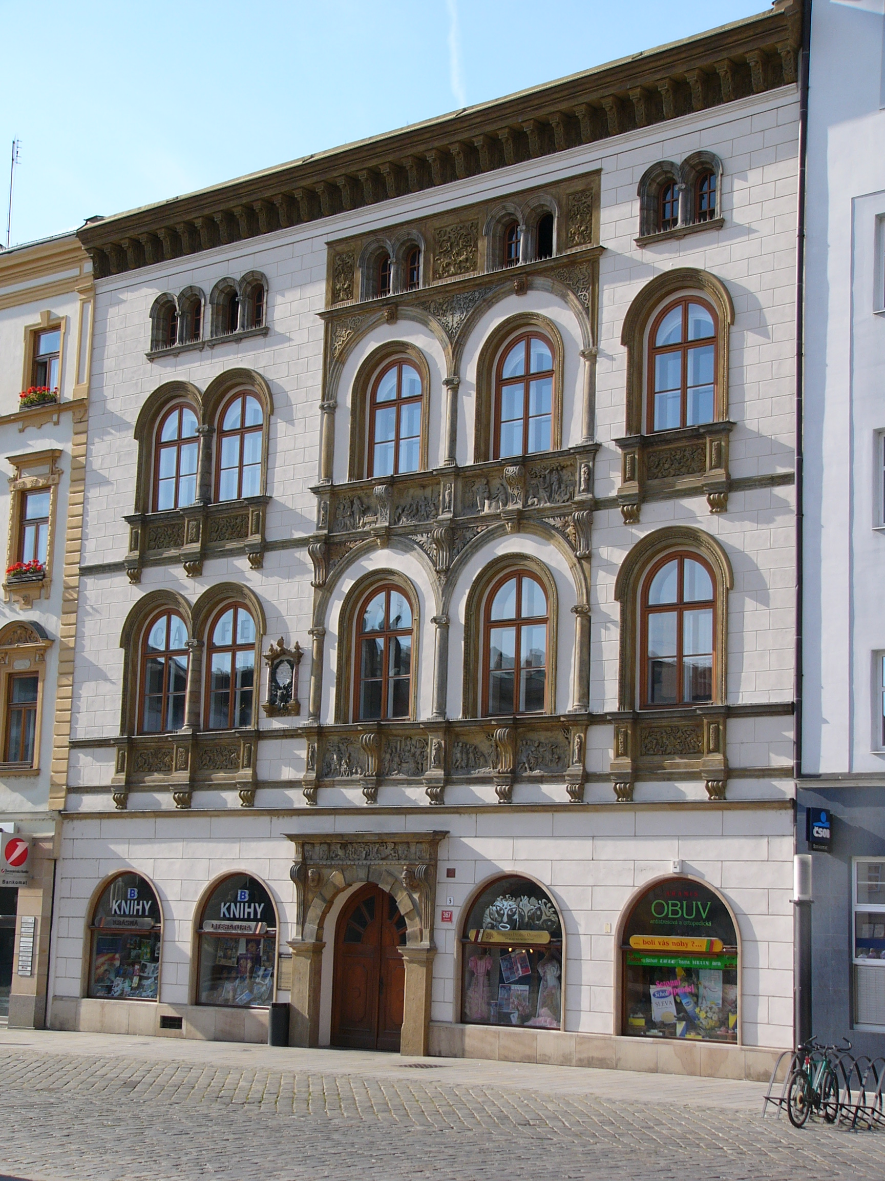 Edelmann palace in Olomouc (Czech Republic).